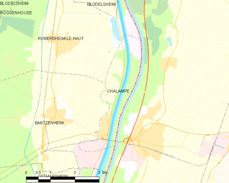 Map of French municipality